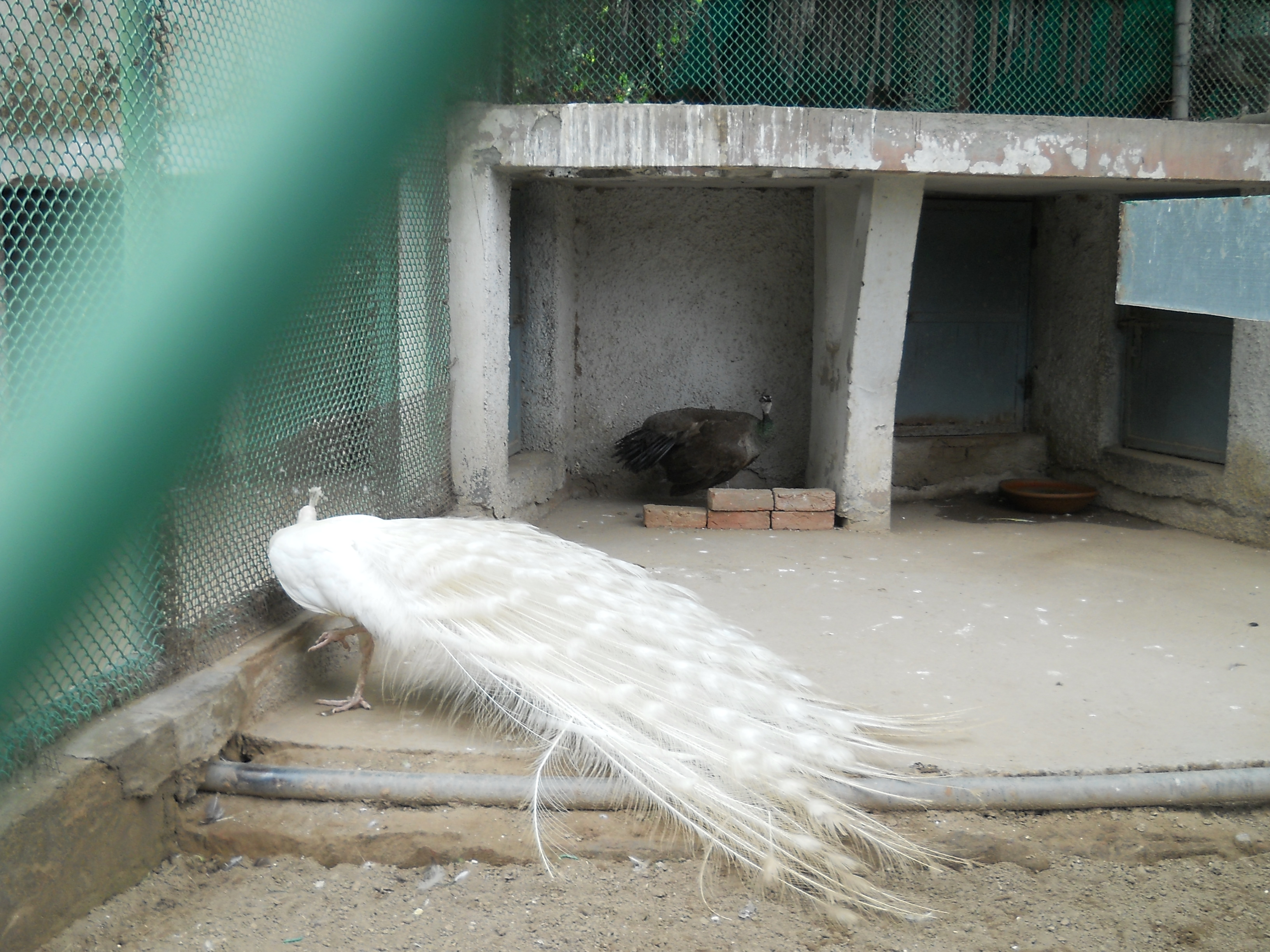 image was taken at new delhi zoo